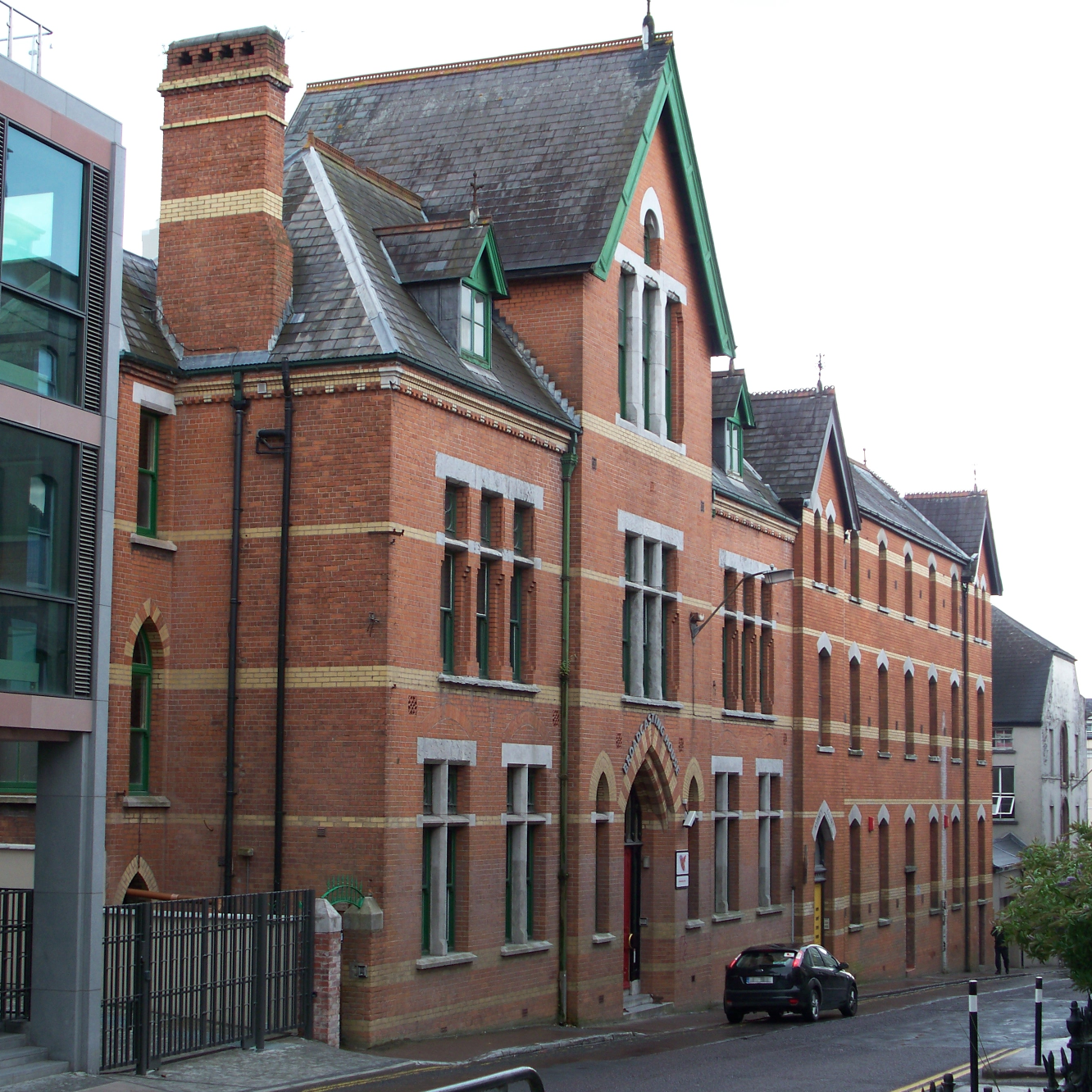 A photograph of Broadcasting House, Patrick's Place, Cork (or perhaps more accurately: Wellington Road (Off St. Patrick's Hill), Cork City), the studios of Cork's 96FM and C103.